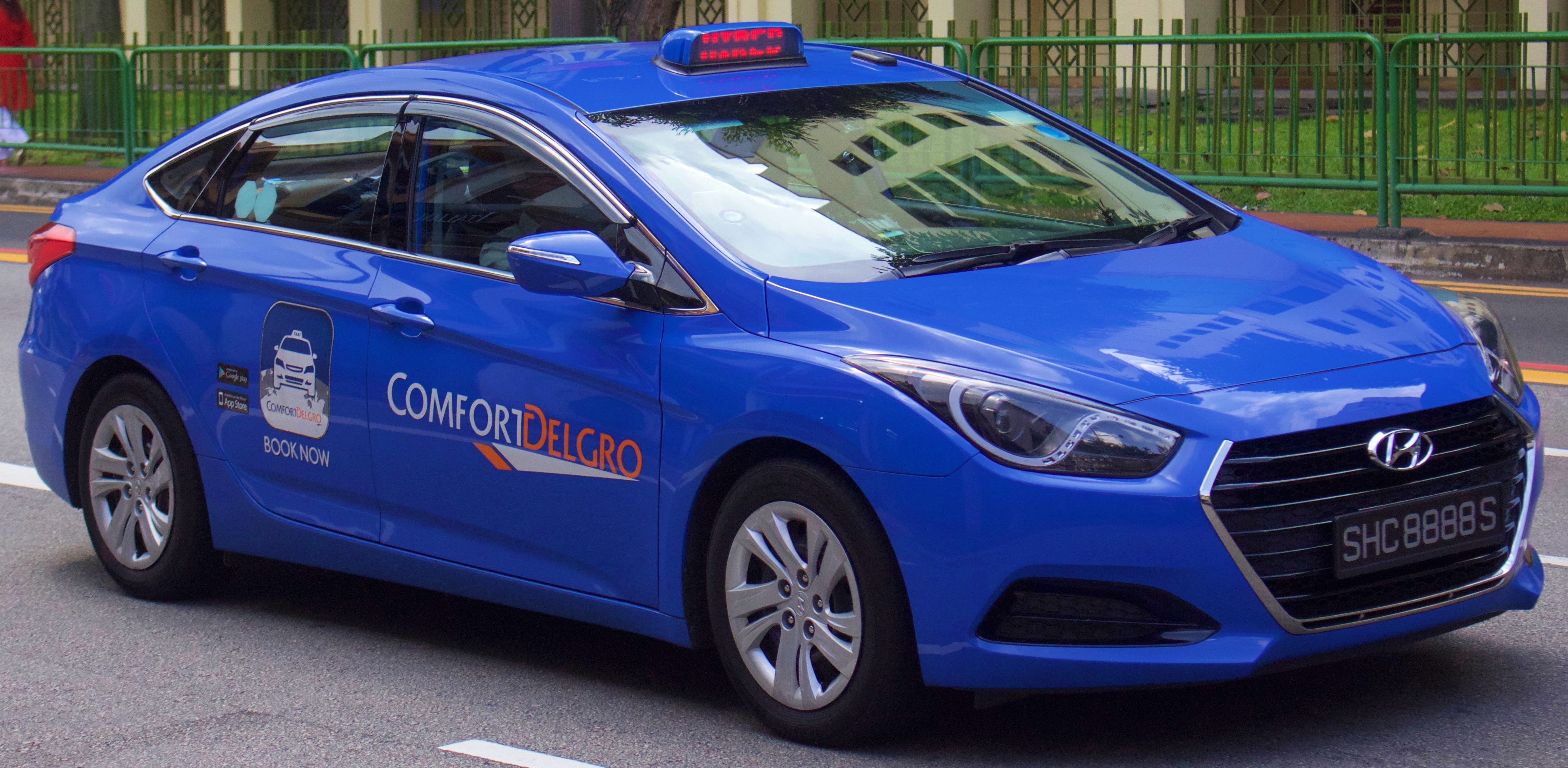 2017 Hyundai i40 (VF4 Series II) 1.7 CRDi sedan, Comfort Taxi. Photographed in Little India, Singapore.